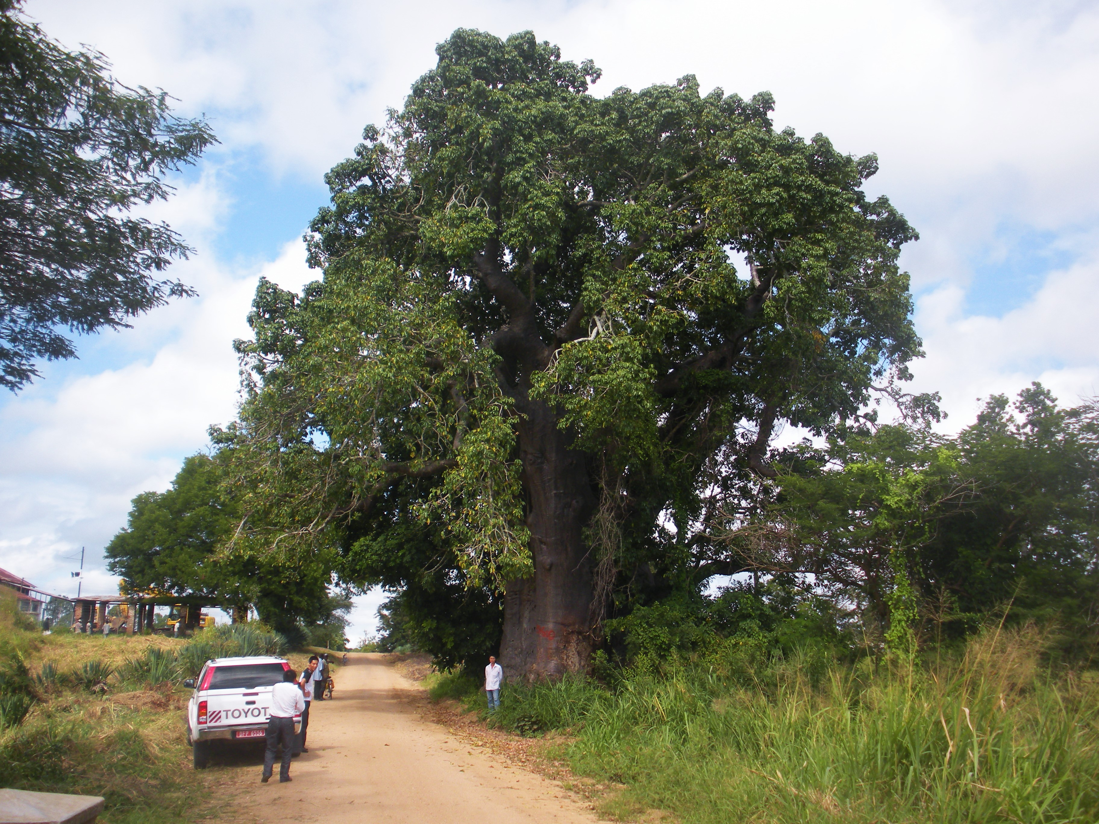 The large baobab tree in Rudewa,Kilosa,Morogoro,Tanzania. This photo has been taken by Prof. Chen Hualin.